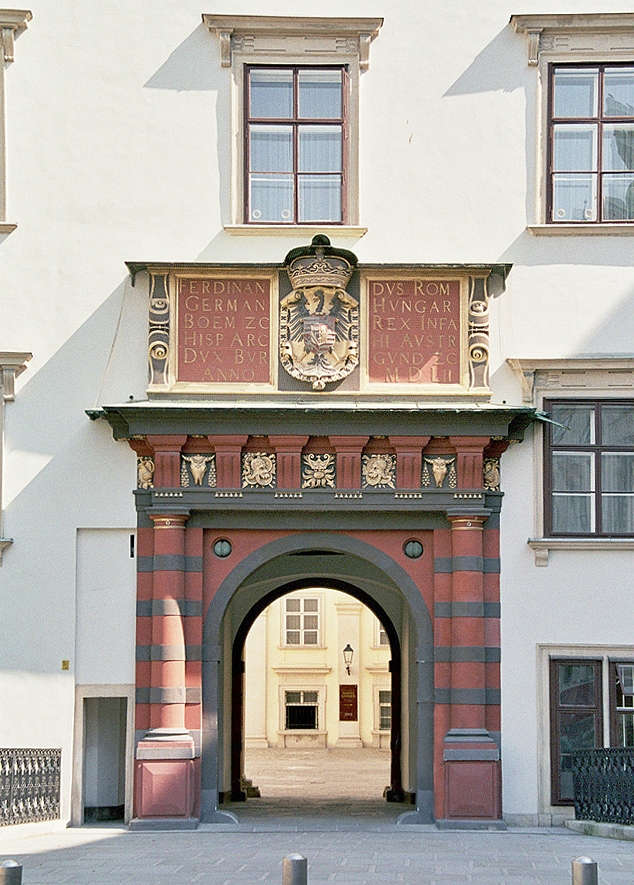 The Schweizertor by Pietro Ferrabosco at the Hofburg in Vienna